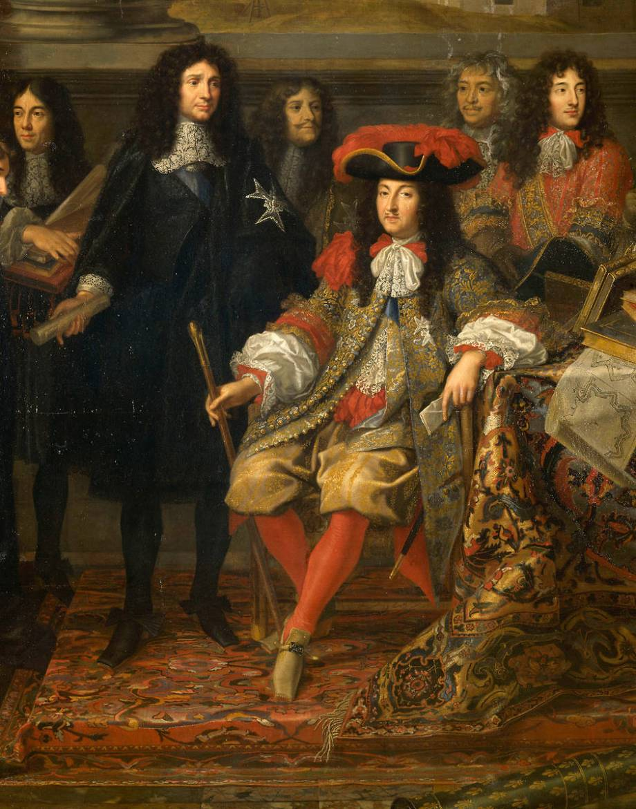 Jean-Baptiste Colbert (1619-83) Presenting the Members of the Royal Academy of Science to Louis XIV (1638-1715)